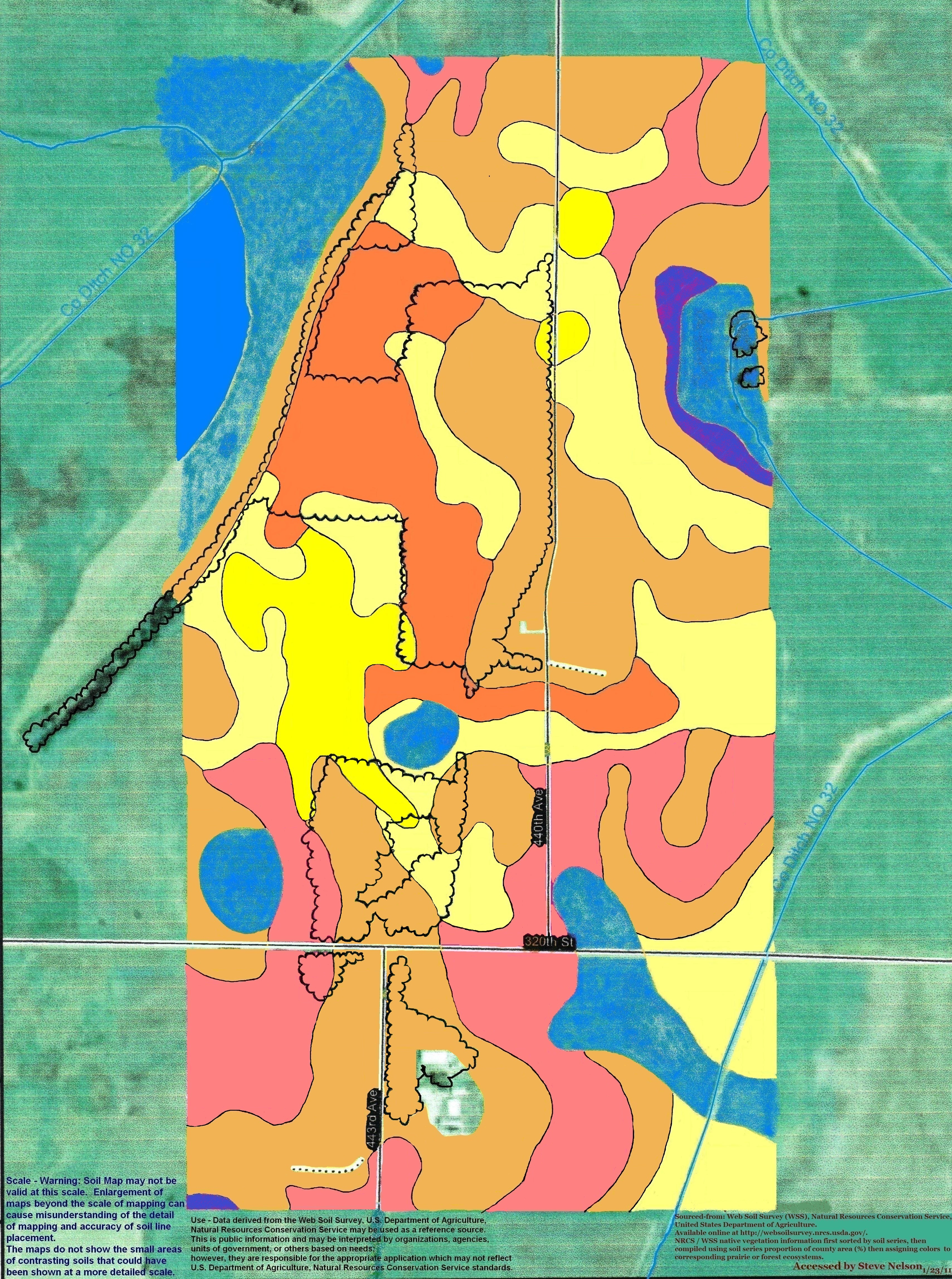 Colored map shows soils of private lands east of Padua, in western Stearns County Minnesota.